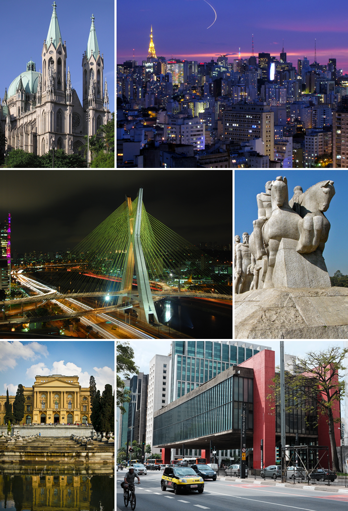 Photo montage of the city of São Paulo, Brazil. From the top, clockwise: São Paulo Cathedral; overview of the historic downtown from Copan Building; Monument to the Bandeiras; São Paulo Museum of Art on Paulista Avenue; Ipiranga Museum; and Octávio Frias de Oliveira Bridge on Marginal Pinheiros.